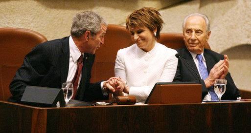 President George W. Bush acknowledges Dalia Itzik, Speaker of the Knesset, as he visits the Israeli parliament Thursday, May 15, 2008, in Jerusalem. At right is Israel’s President Shimon Peres.